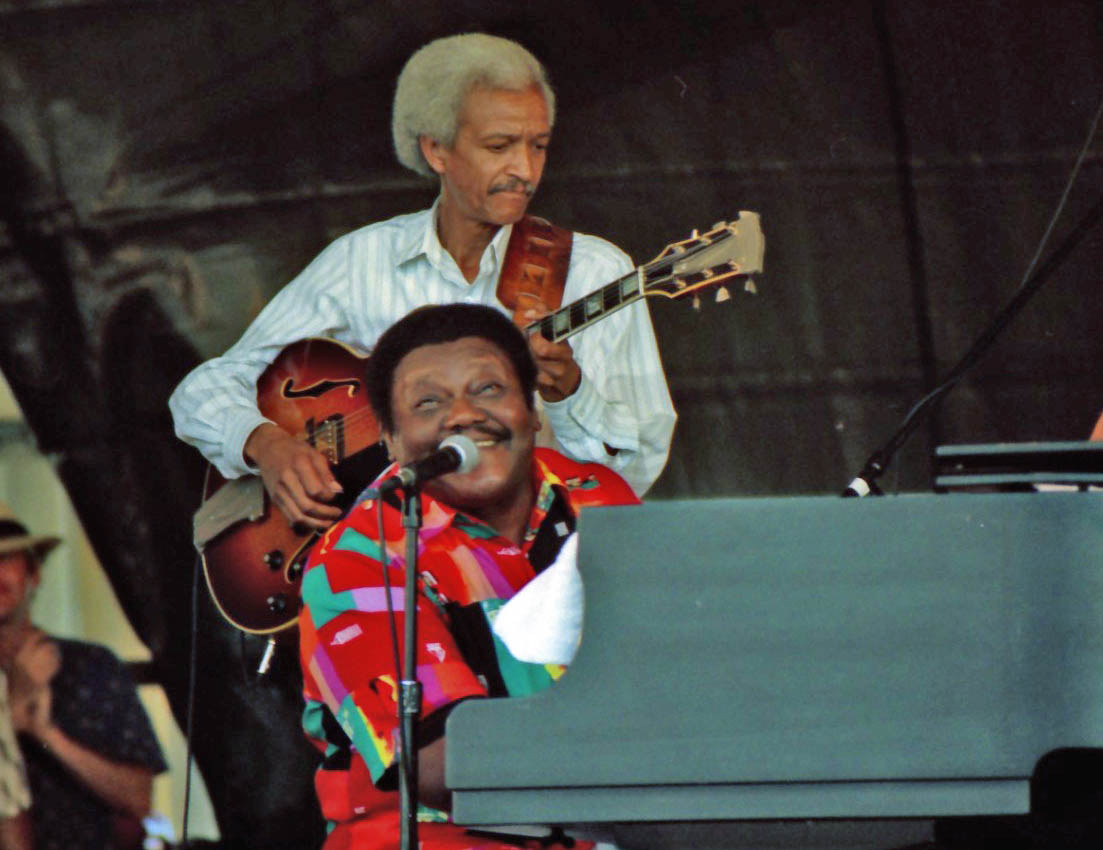 Fats Domino and Jimmy Moliere at the New Orleans Jazz & Heritage Festival 1997